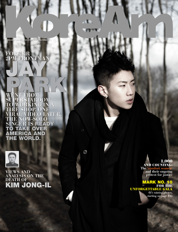 Magazine cover of KoreAm from January 2012; Jay Park.